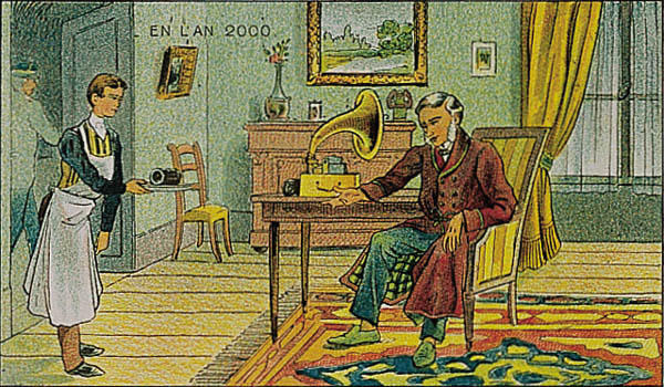 France in 2000 year (XXI century). Phonographic Message. France, paper card.